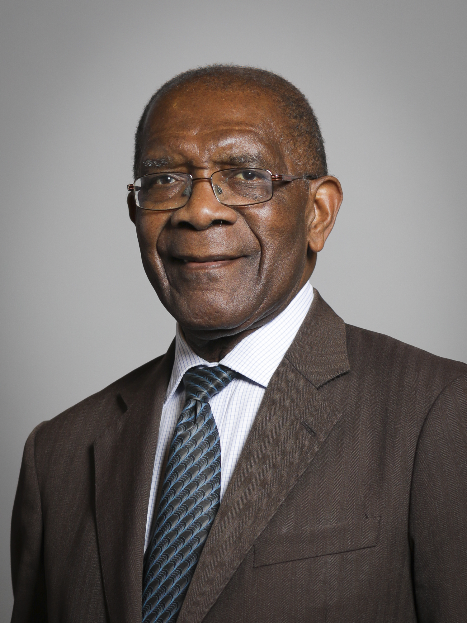 Official portrait of Lord Morris of Handsworth 3×4 portrait of Lord Morris of Handsworth